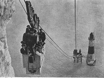 How the Beachy Head Lighthouse was built. Photo shows a temporary cable car and iron ocean platform transporting workers and stones to the lighthouse site.